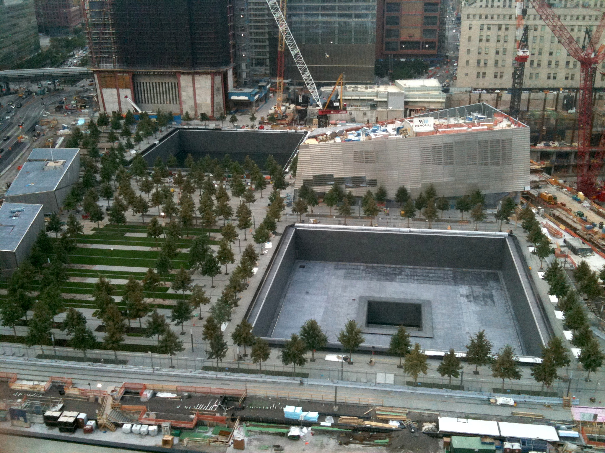 View of September 11 Memorial and Museum from 8/19/2011